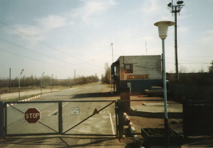 Entrance to the zone of alienation around Chernobyl.